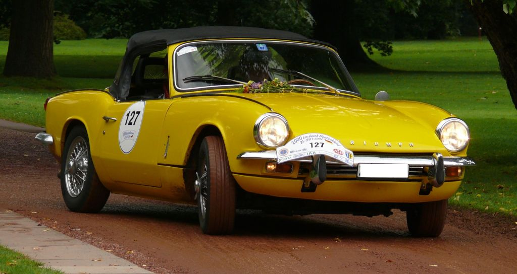 Triumph Spitfire MK III